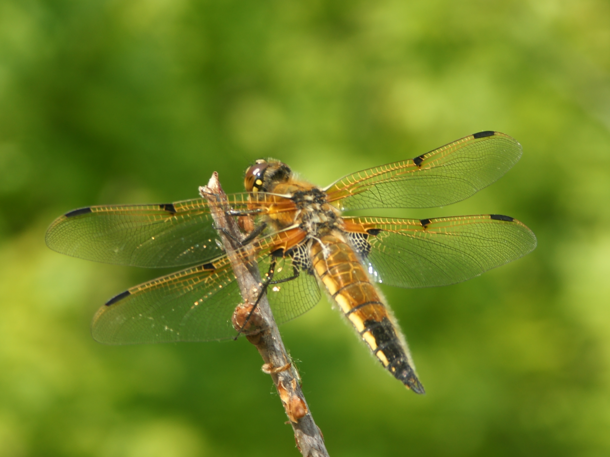 a Four-spotted Chaser (Libellula quadrimaculata)